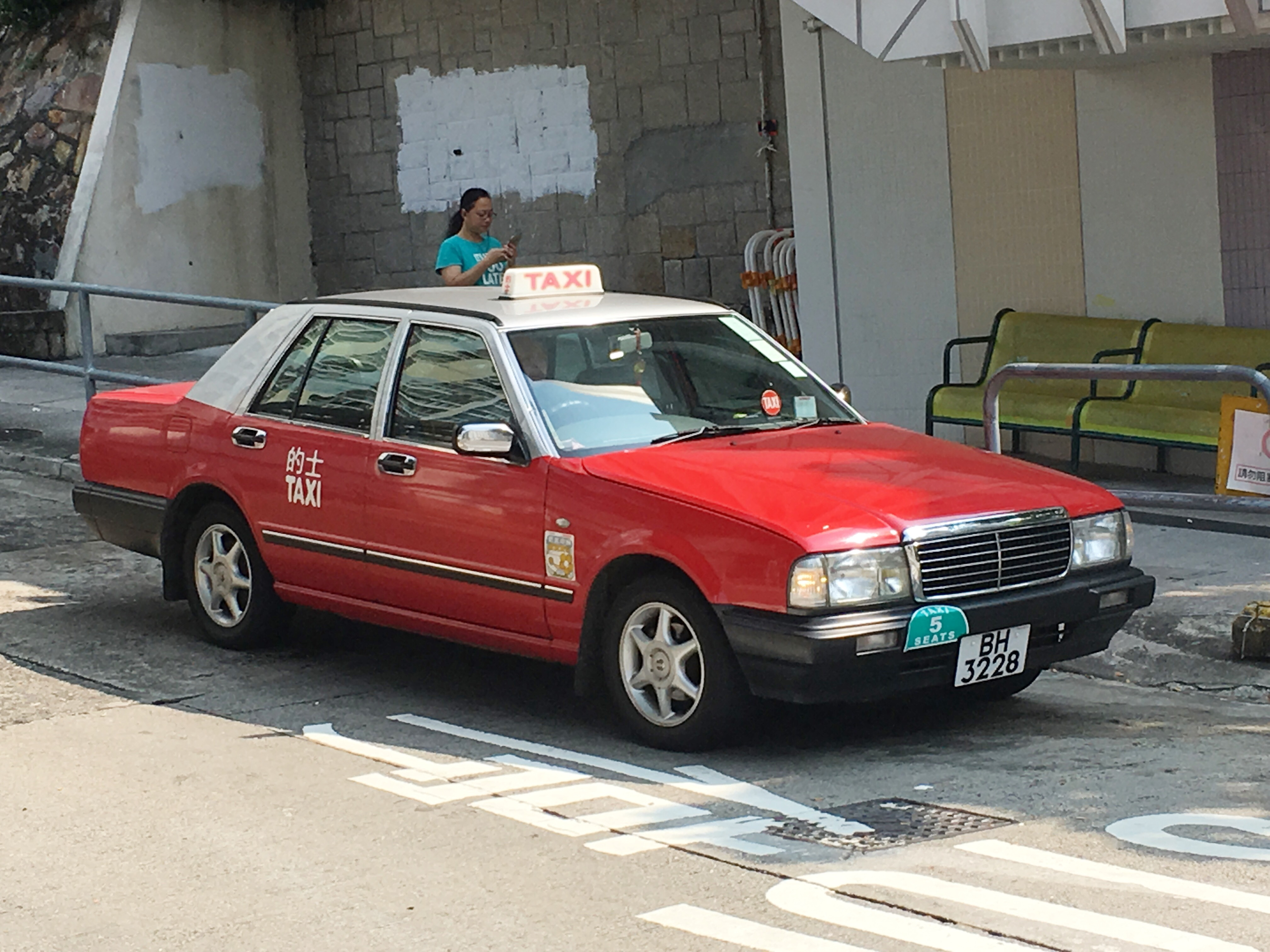 中文（香港）: This photo is taken in Wah Fu.